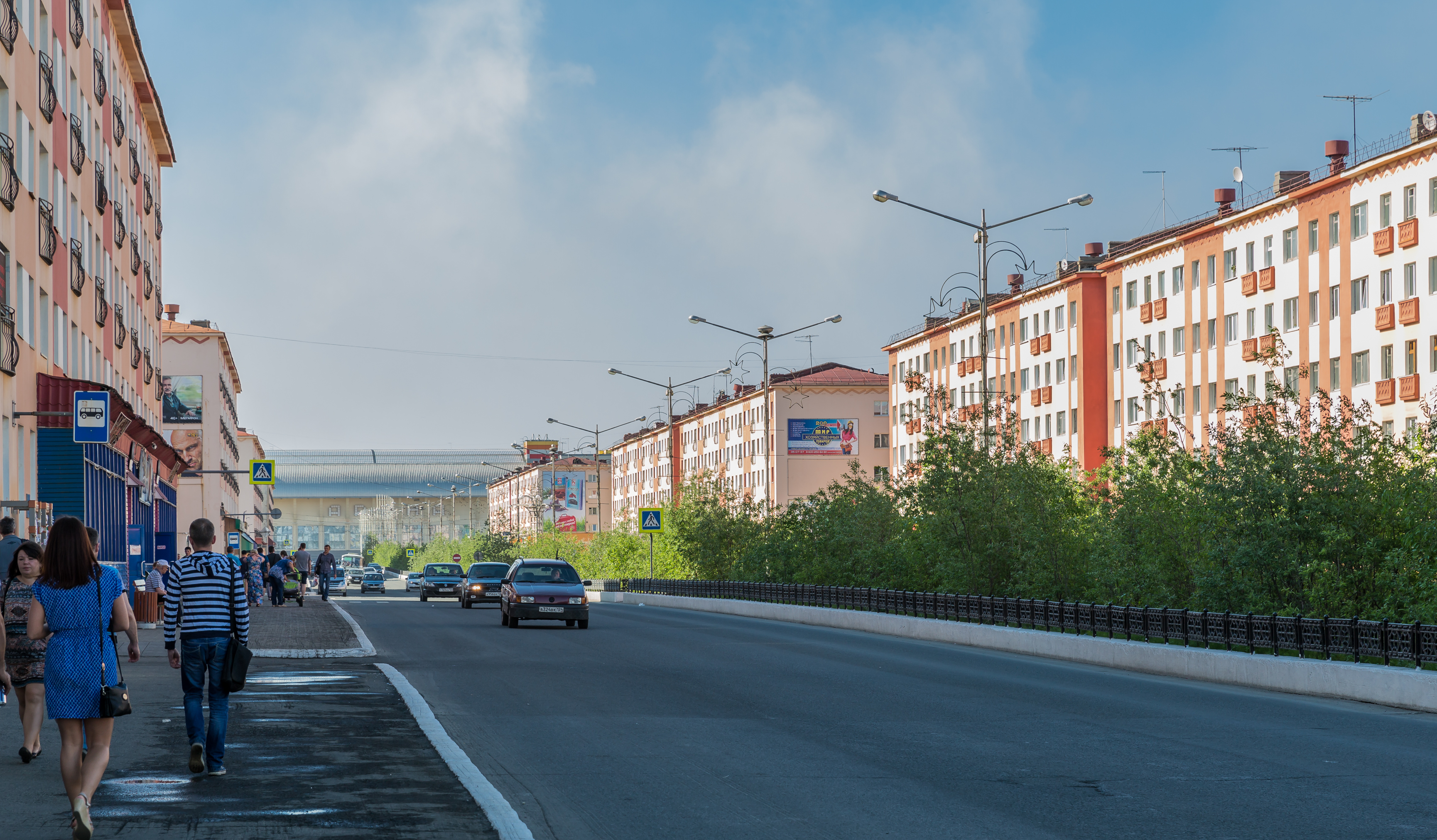 Norilsk, Leninsky Prospekt